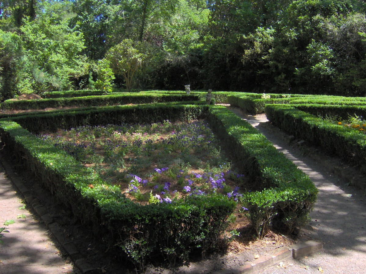 The Flowerdale Garden at Magnolia Plantation and Gardens in Charleston, South Carolina, in the southeastern United States. First planted in 1680, the garden is one of the oldest unrestored gardens in the United States.